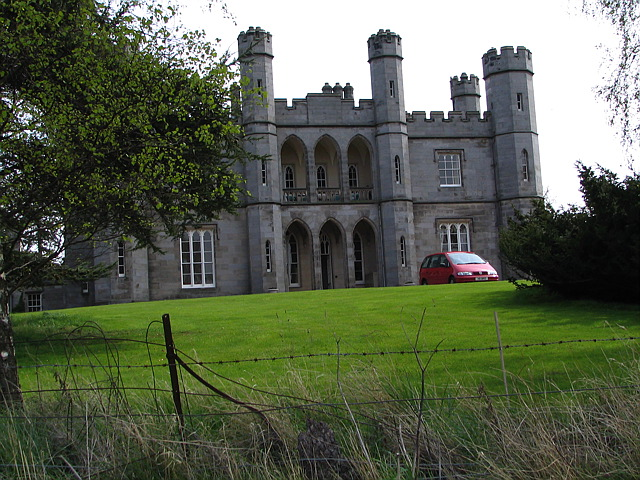 Newbyth. A former mansion at Newbyth, now divided into apartments. Roe deer wander in the fields beside the house.